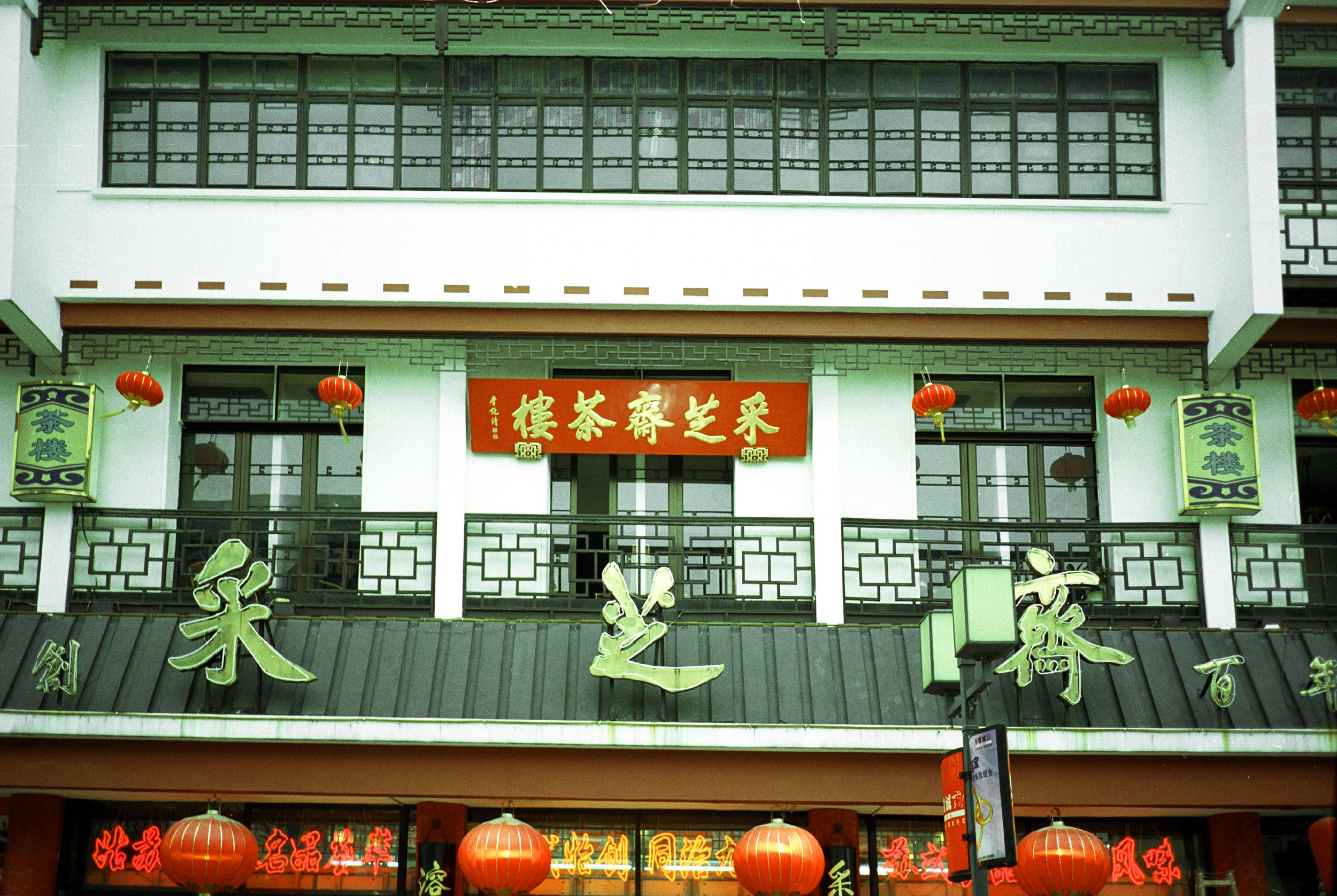 A candy store in Suzhou苏州观前街老字号采芝斋糖果店